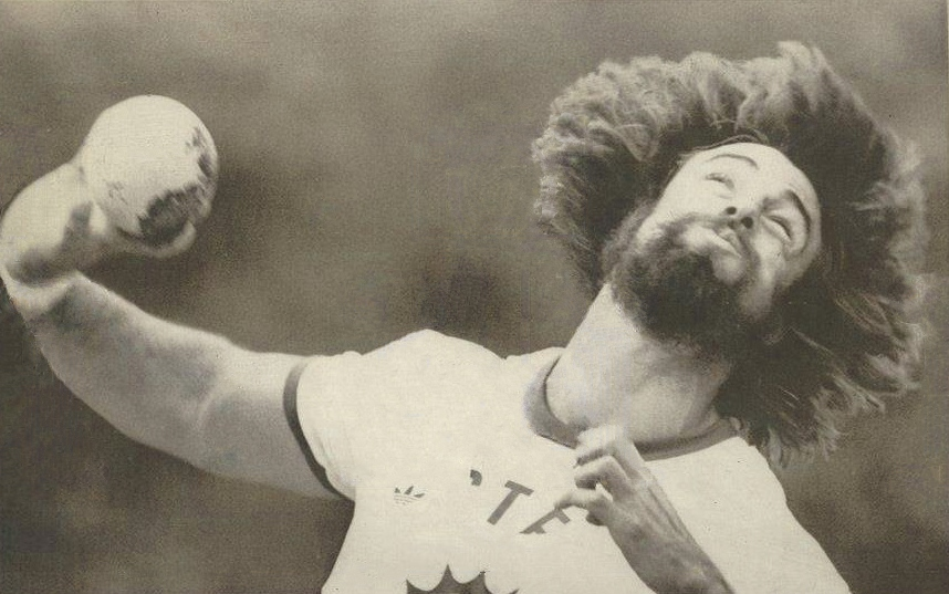 1976 Press Photo Olympic Shot Putter Mac Wilkins - RRV59729